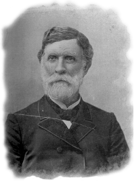 Newton Edmunds was the second Governor of Dakota Territory, serving during the American Civil War. He was appointed by President Lincoln.